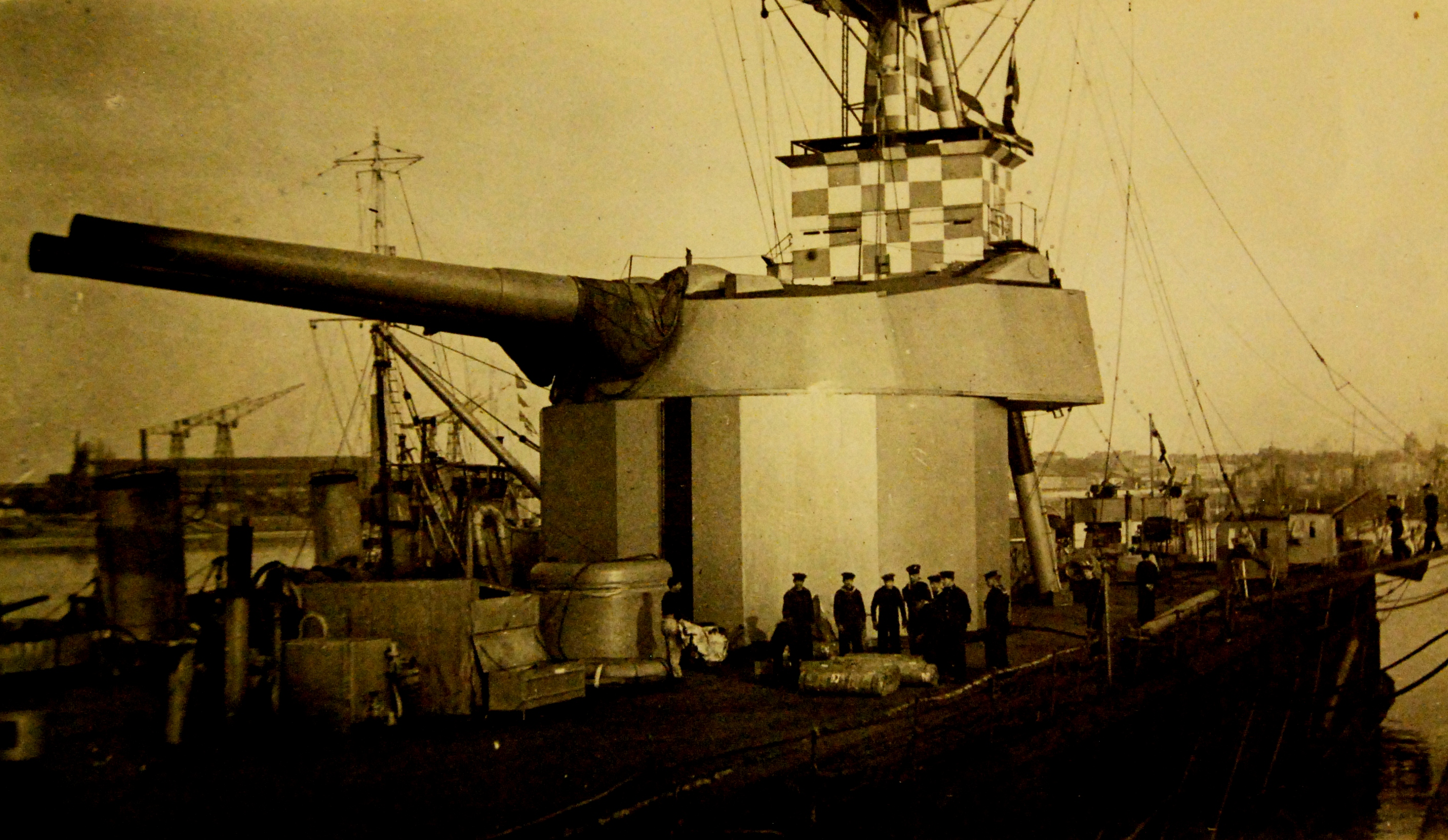 Lot 9609-14: Royal Navy (British) during the First World War. Belgian Coast Operations. Royanl Navy Ney-class monitor, HMS Marshal Soult, showing her 16” gun. Collection was transferred from a British government source in 1920 to the Library of Congress. (9/18/2015).